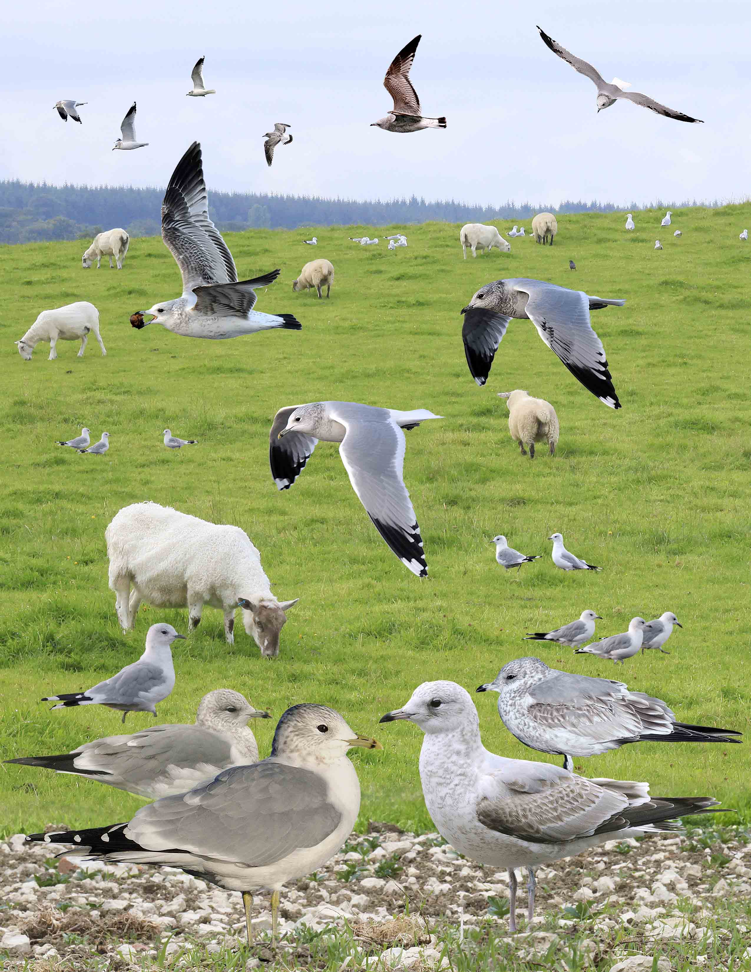 Common Gull from the Crossley ID Guide Britain and Ireland